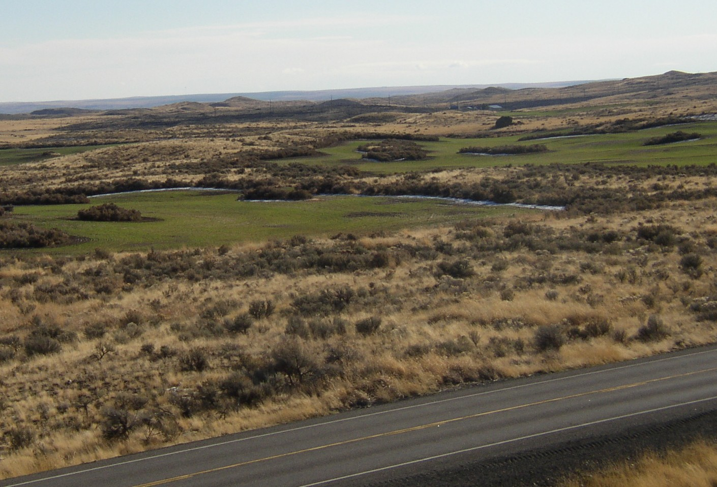 The terminal morraine with multiple kames at the terminus of the Okanagon Lobe on the Waterville Plateau. Photos taken by uploader. All rights released. Williamborg 20:06, 12 November 2006 (UTC)